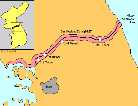 This map—scaled roughly 900 m per pixel—shows the DMZ from 10 to 14 pixels thick. On the ground its thickness is about 4 kilometres only. Presumedly this map was source for numerous similarly erroneous maps on Wikimedia Commons. Original Picture Made By: Kevin Rein